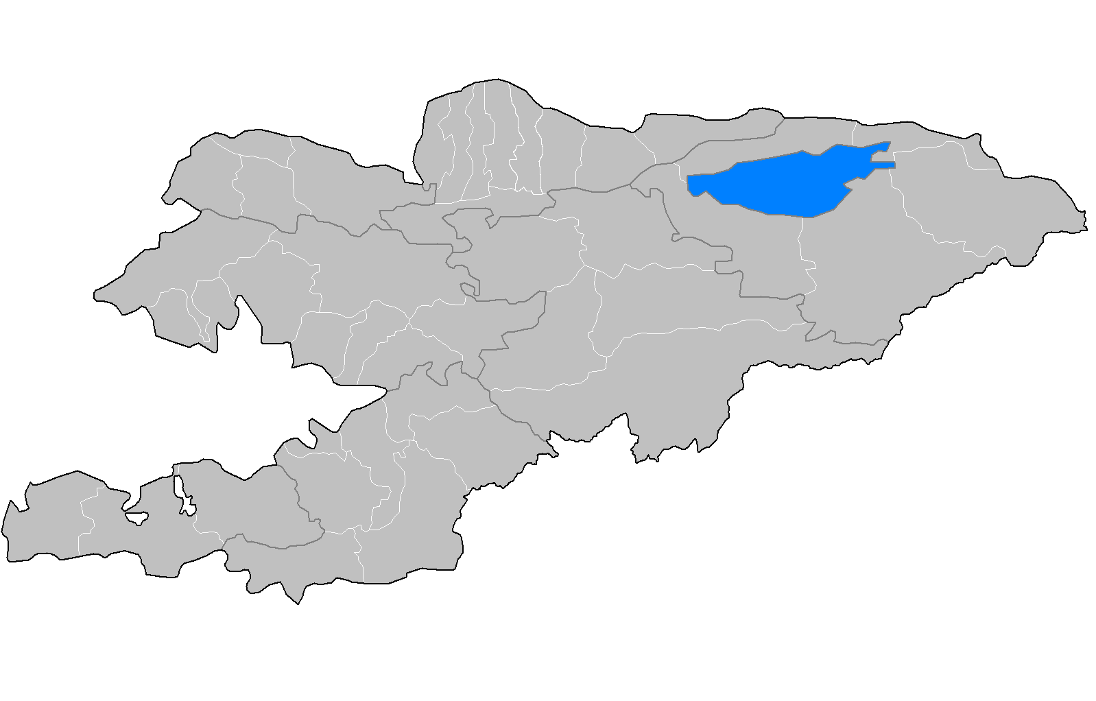 Map of the raions of Kyrgyzstan. Created by Rarelibra 17:49, 3 August 2007 (UTC) for public domain use, using MapInfo Professional v8.5 and various mapping resources.